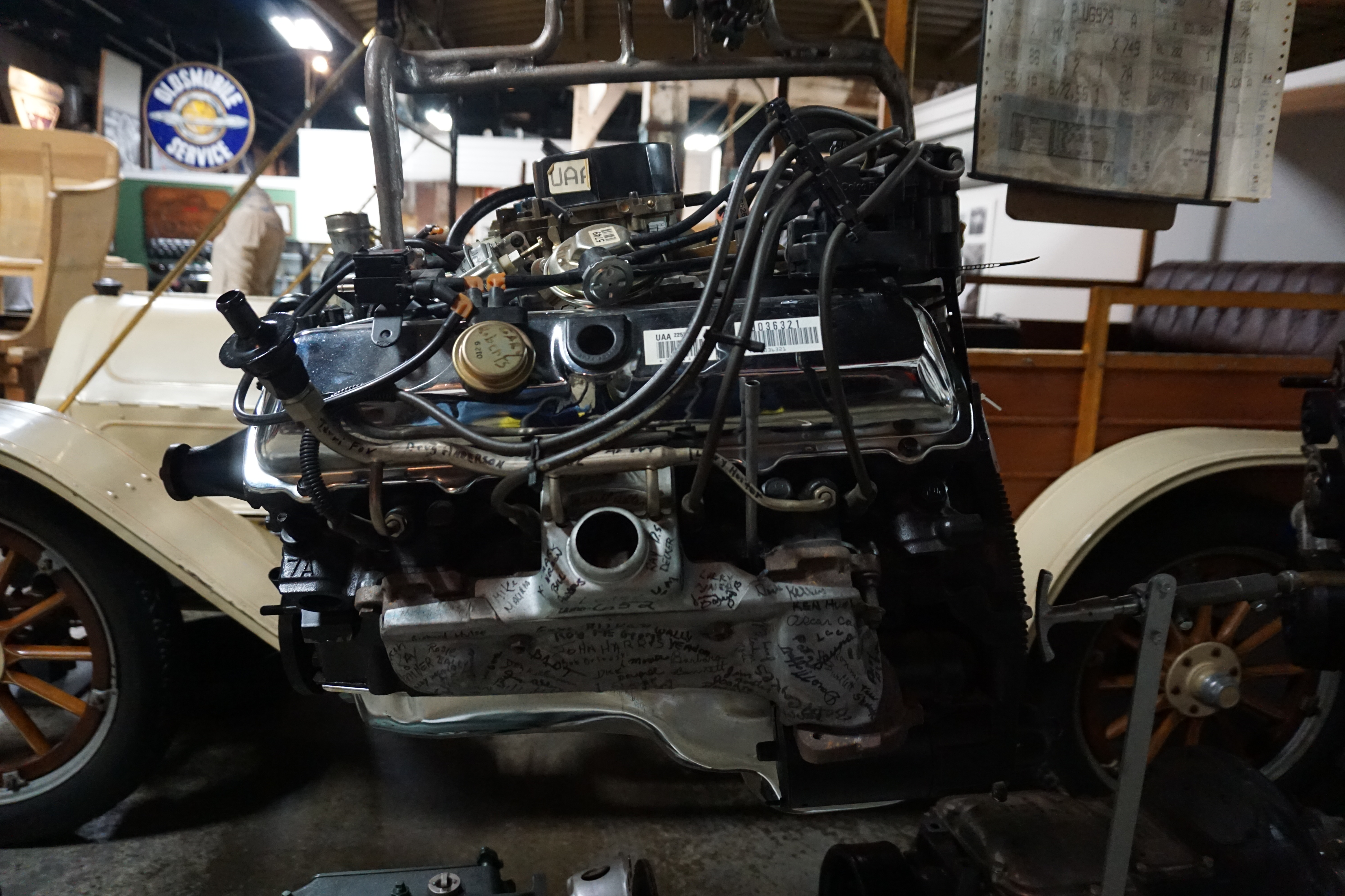 A 1990 Oldsmobile V8 engine (presumably a 307) at the R. E. Olds Transportation Museum in Lansing, Michigan (United States).